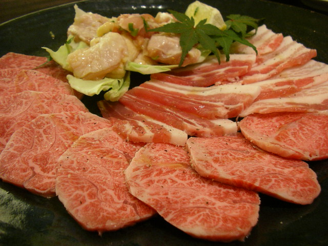 sliced meat for yakiniku